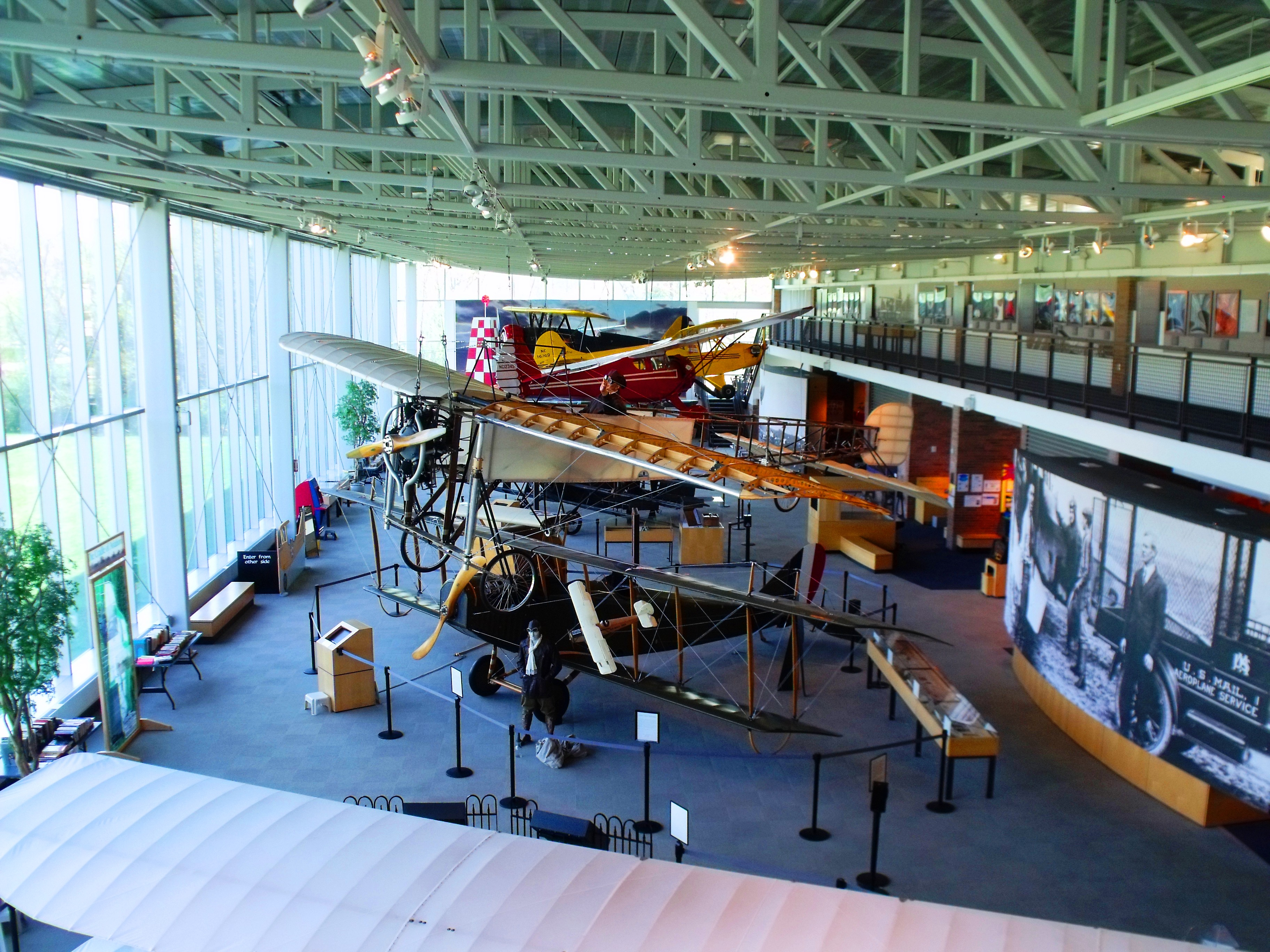 College Park Aviation Museum inside